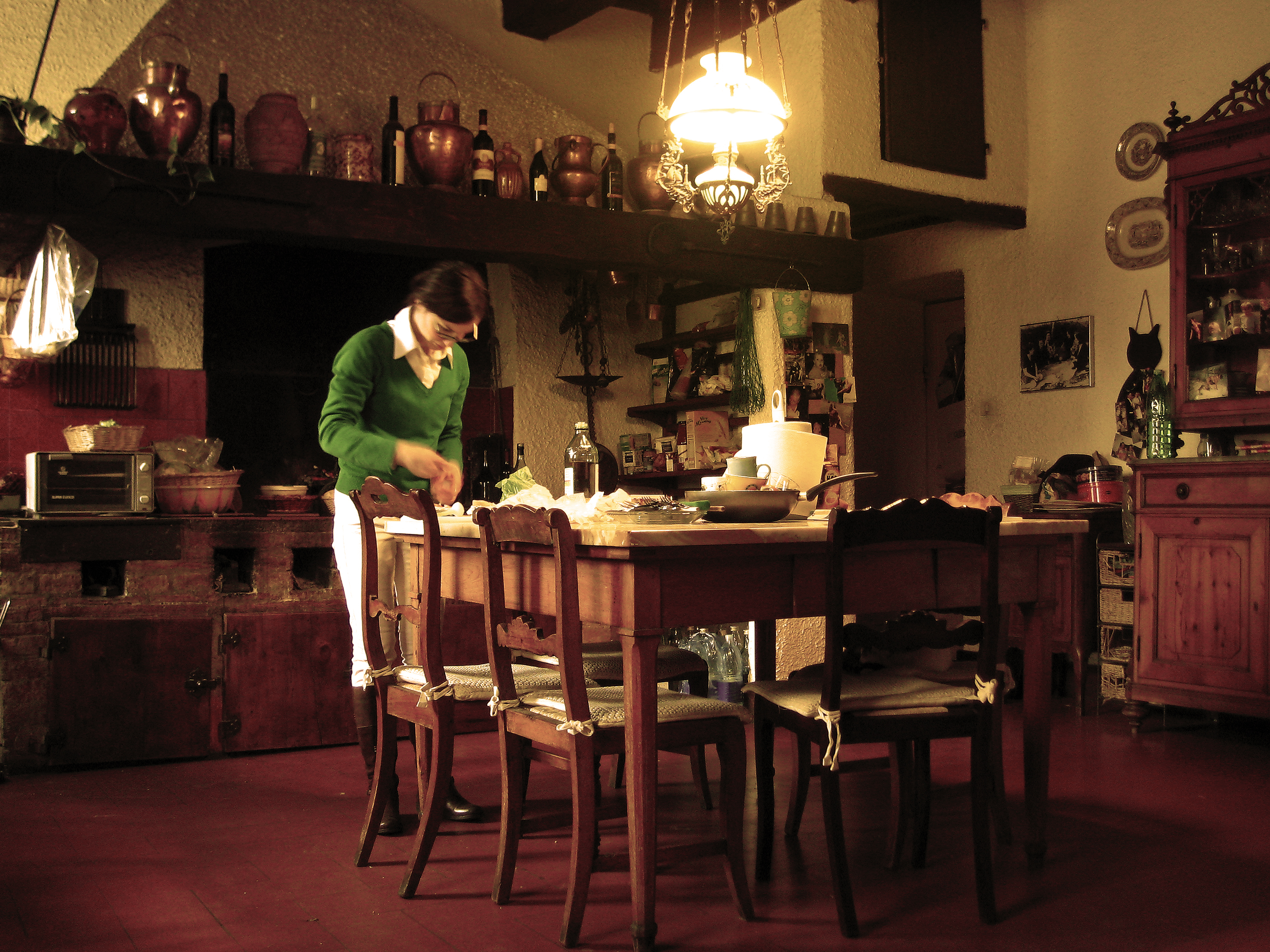 Traditional Tuscan kitchen, Siena, Tuscany